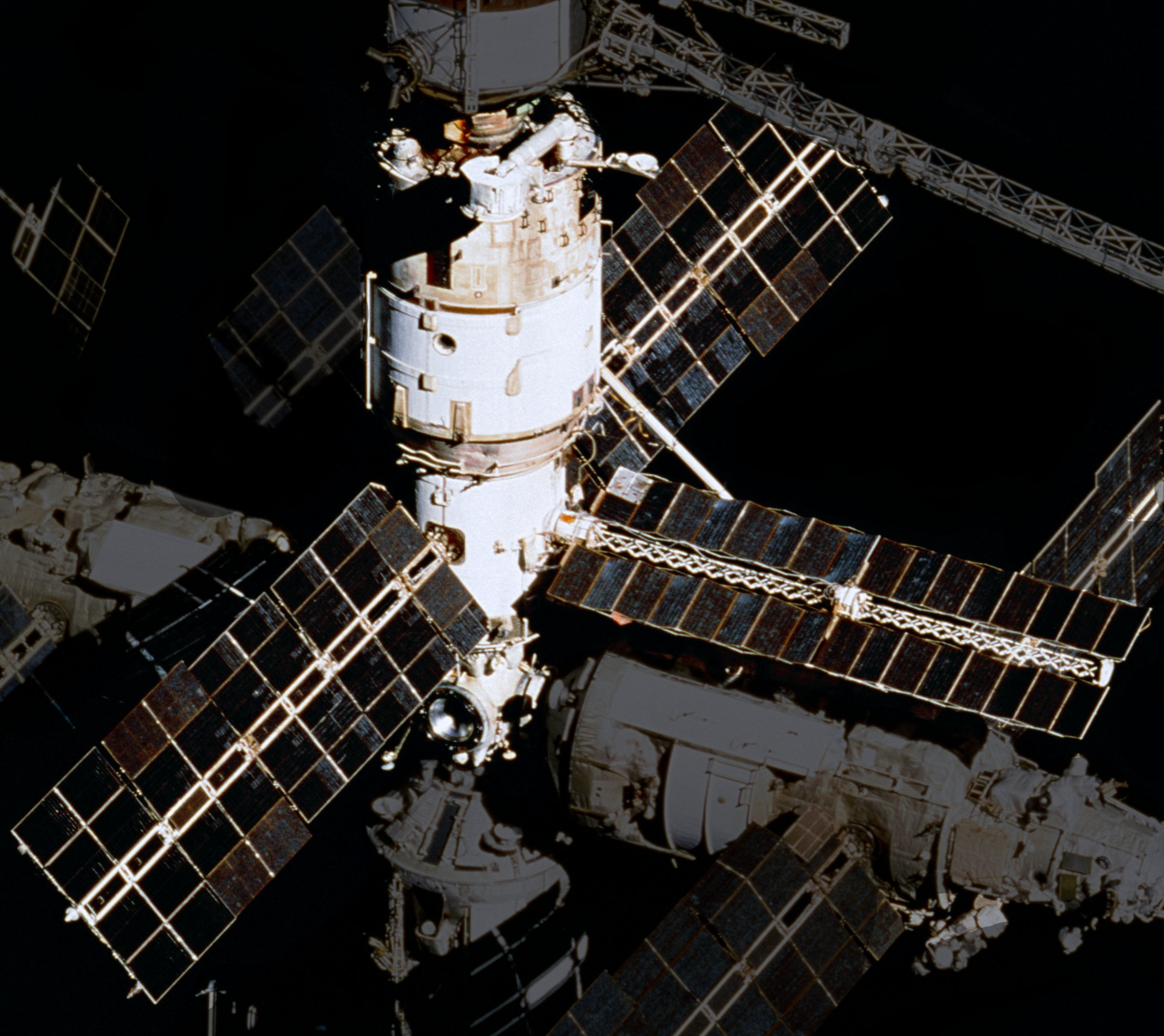 Full views of the Russian Mir space station taken from the space shuttle Atlantis during the STS-71 mission.